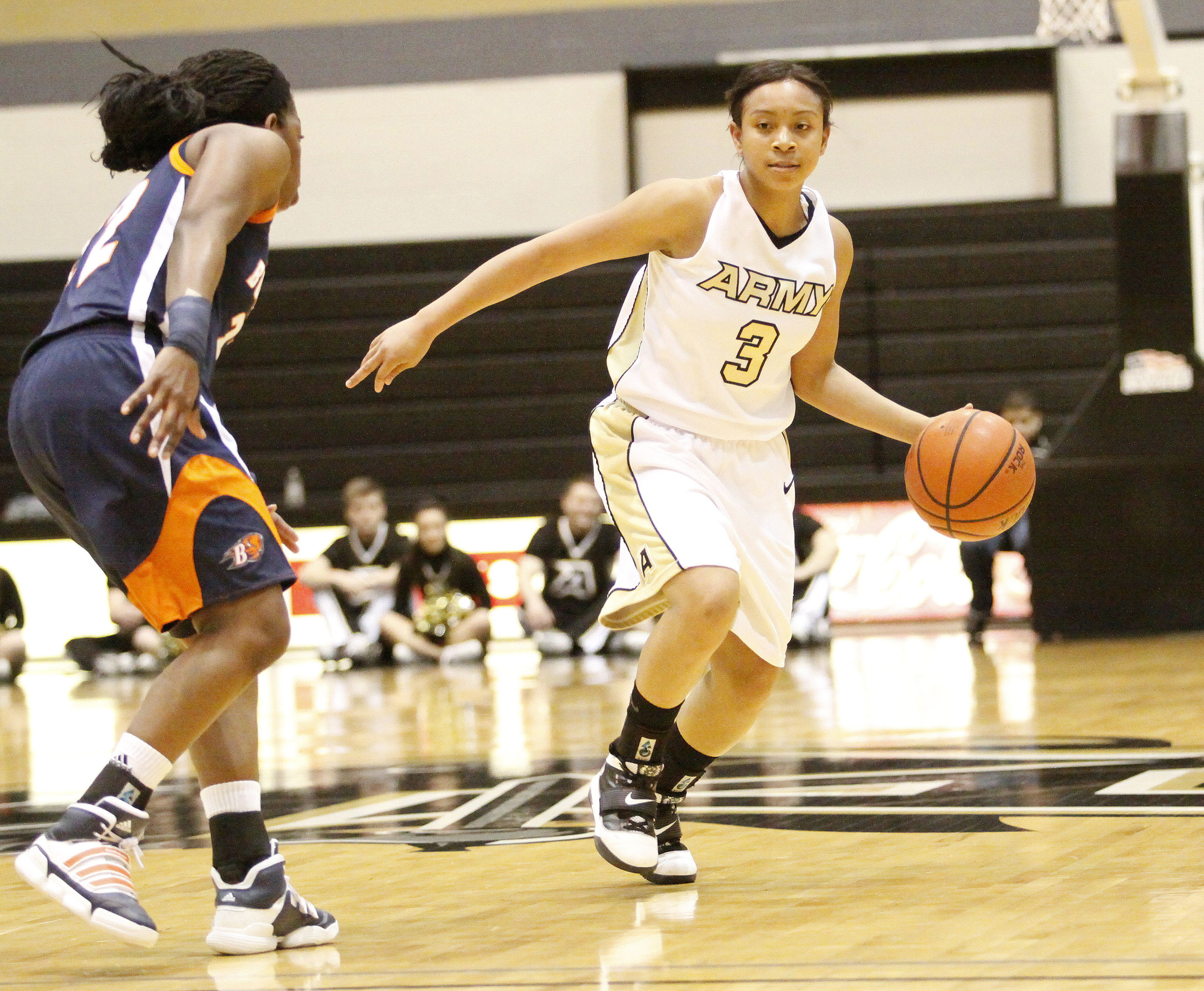 Army senior guard Nalini Hawkins tries to dribble past a defender Feb. 26 at Christl Arena during a Patriot League women's basketball game. Bucknell defeated Army 44-40 during Army's Senior Day. Army is now 13-15 on the season with a 7-7 Patriot League record